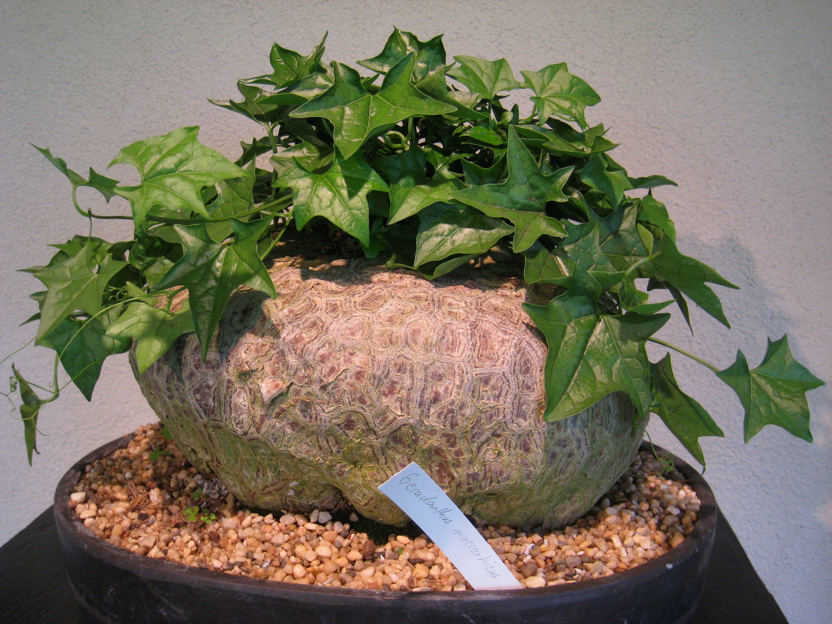 Gerrardanthus macrorhiza, in the Tower Hill Botanic Garden, Boylston, Massachusetts, USA.